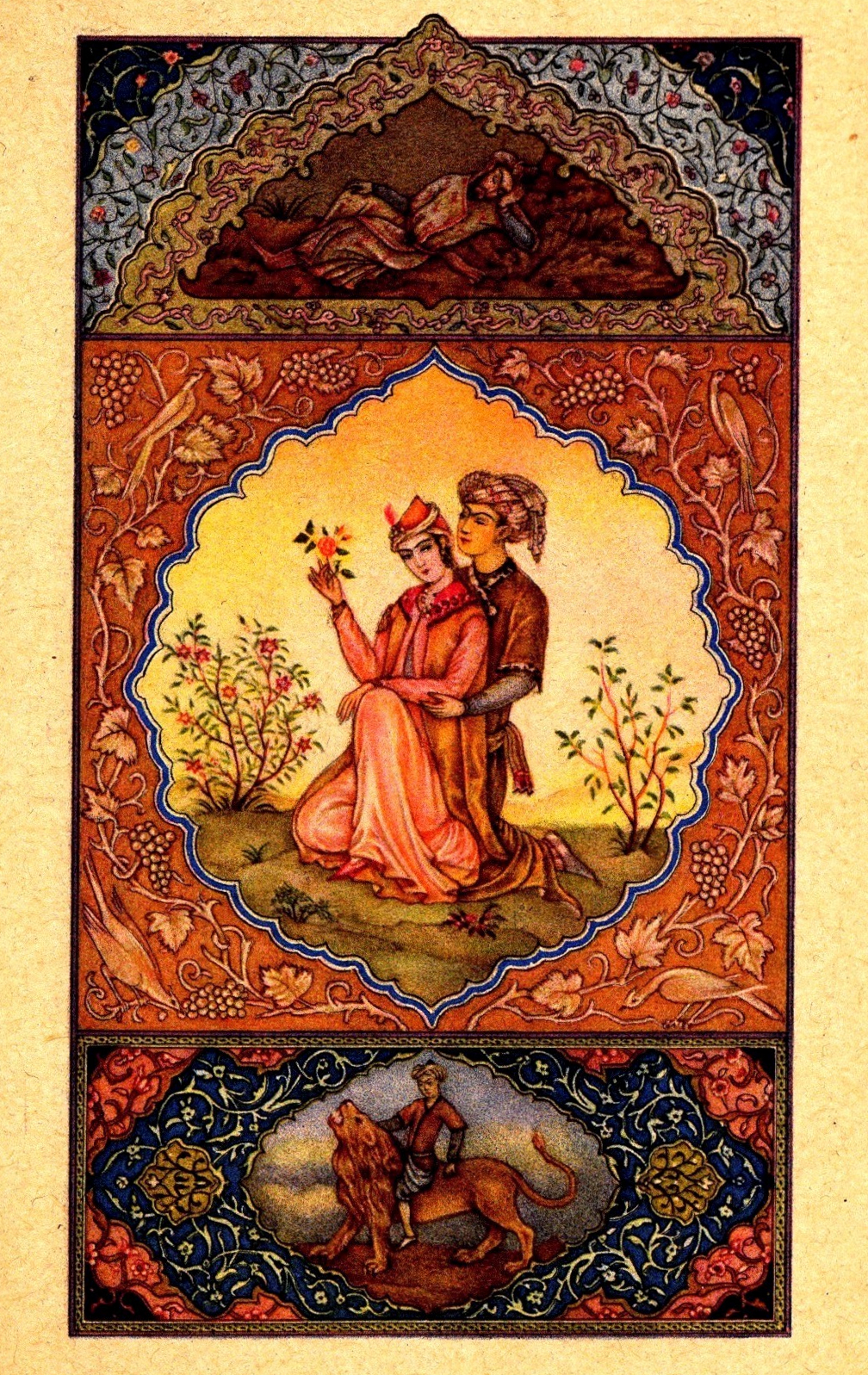 Miniature illustrating Sa'di in his Gulistan.